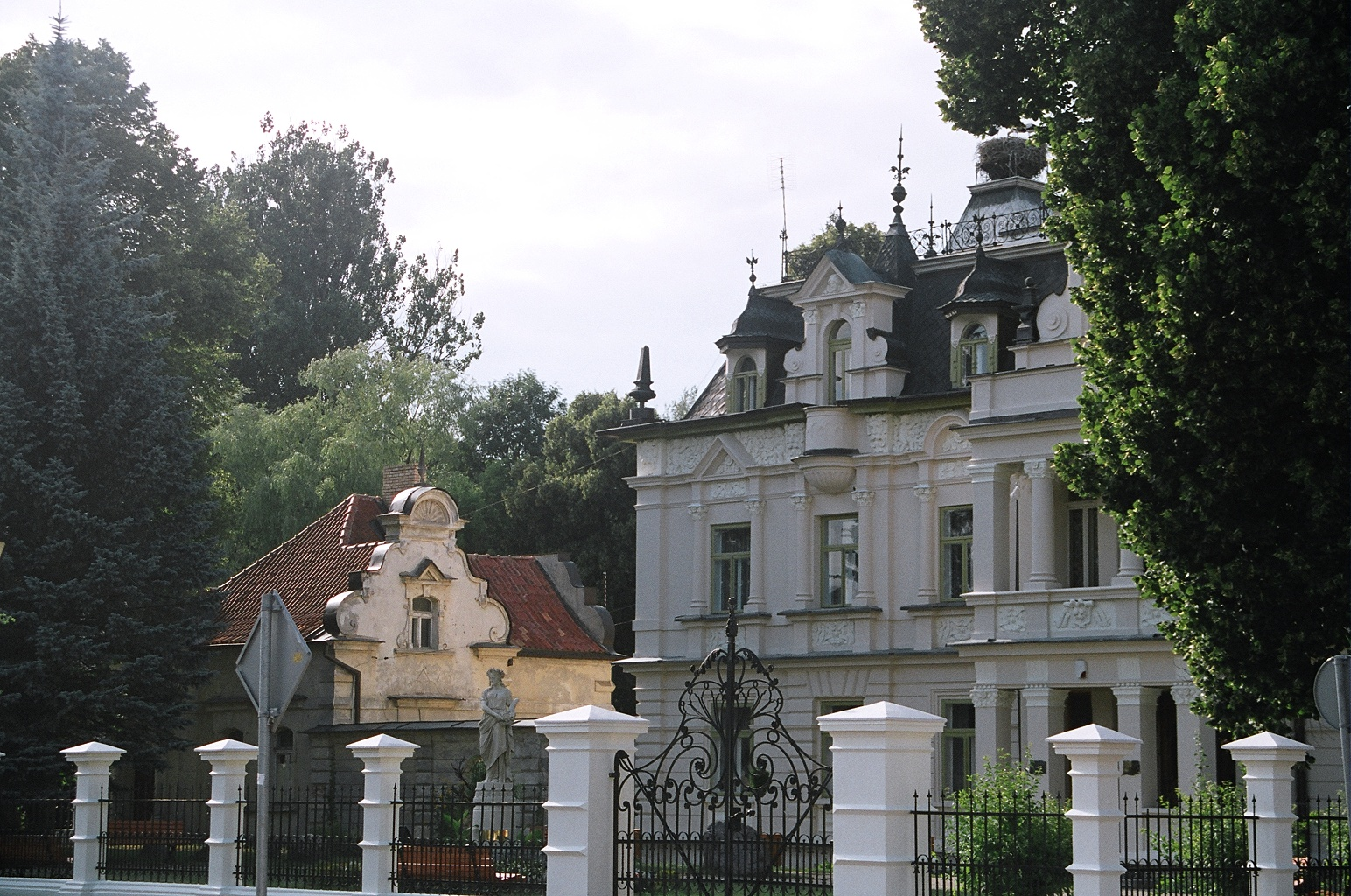 Buchholtz Palace in Supraśl